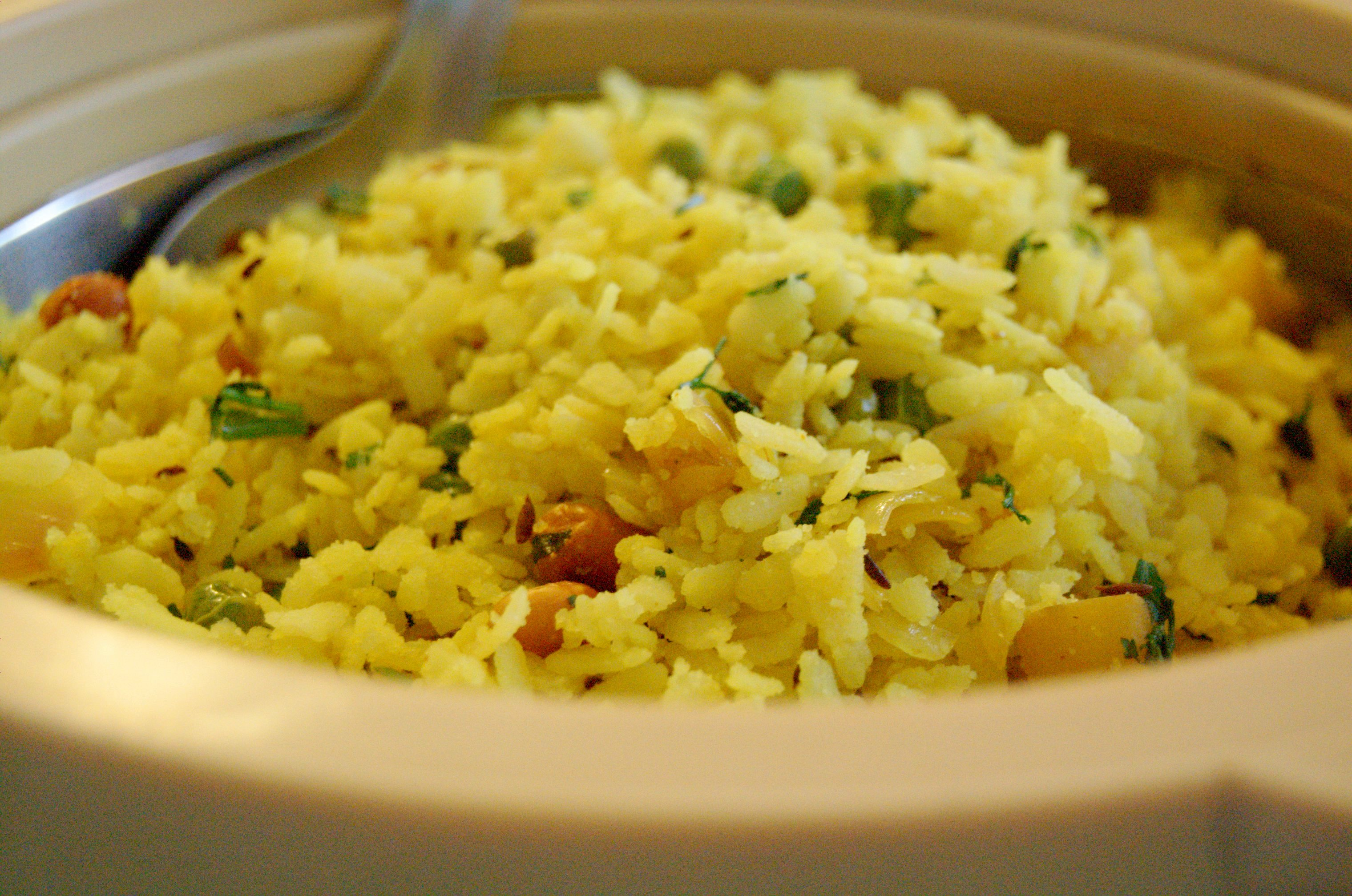 South Asian fast food